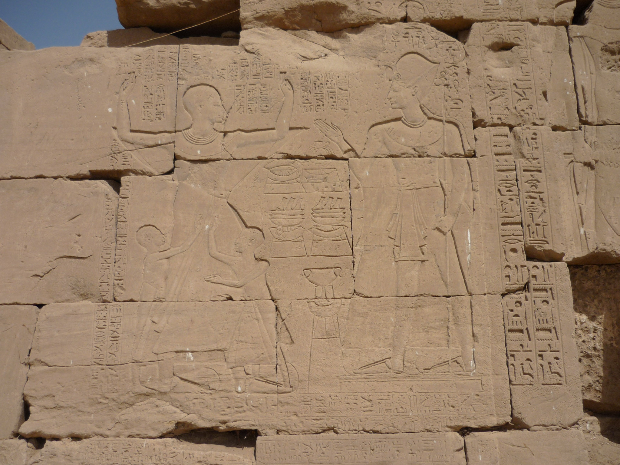 Amenhotep, high priest of Amun, and Ramses IX - Wall relief on second axis, Karnak temple of Amun-Ra, Egypt